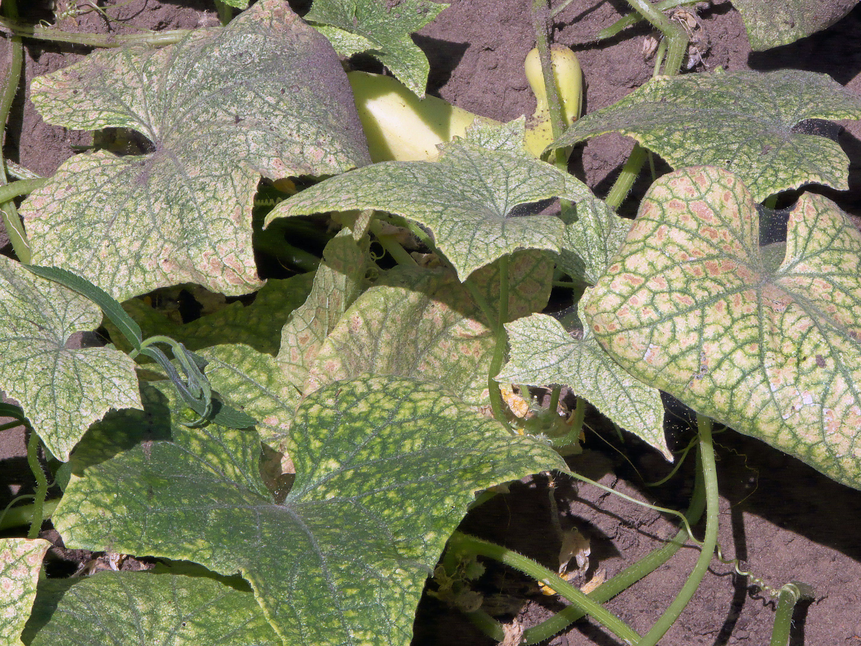 Cucumis sativus attacked by Tetranychus urticae